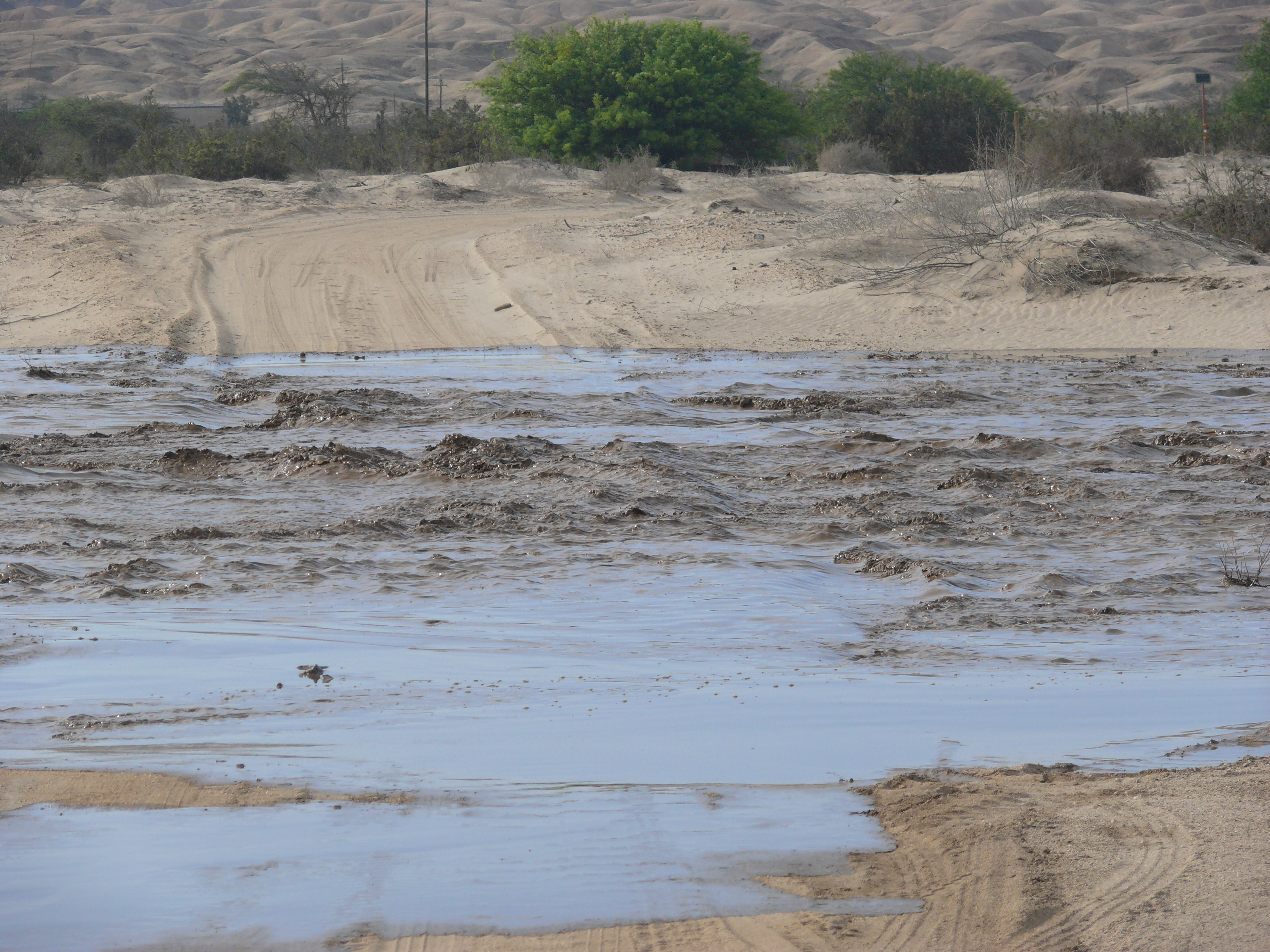 The Swakop River in Namibia 20 km before Swakopmund